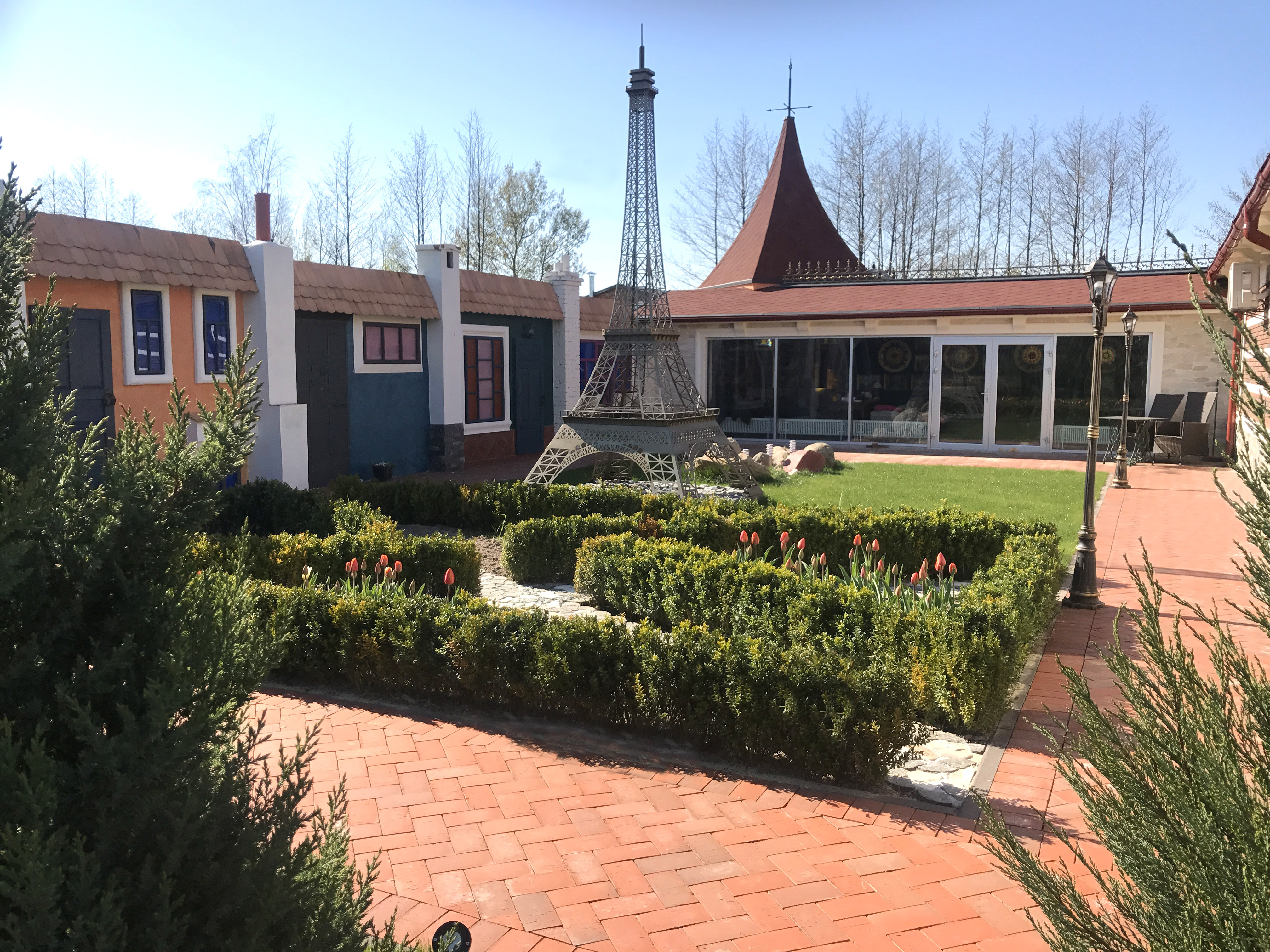 Dovbysh, Zhitomir region, Ukraine